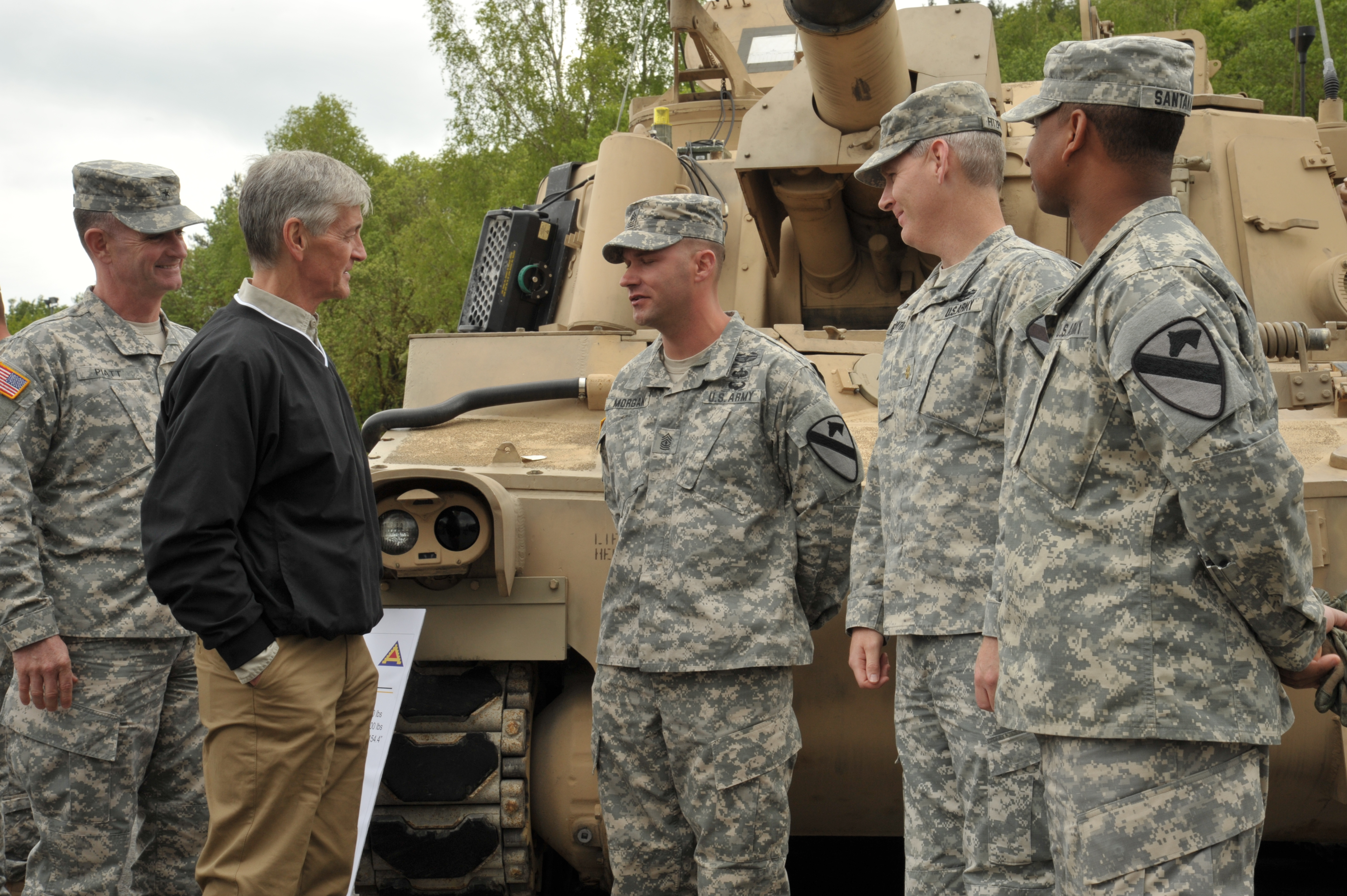 The Secretary of the U.S. Army, the Honorable John M. McHugh, visits with soldiers from 14 NATO and European partner nations during exercise Combined Resolve II at the Hohenfels Training Area, Germany, May 17, 2014.